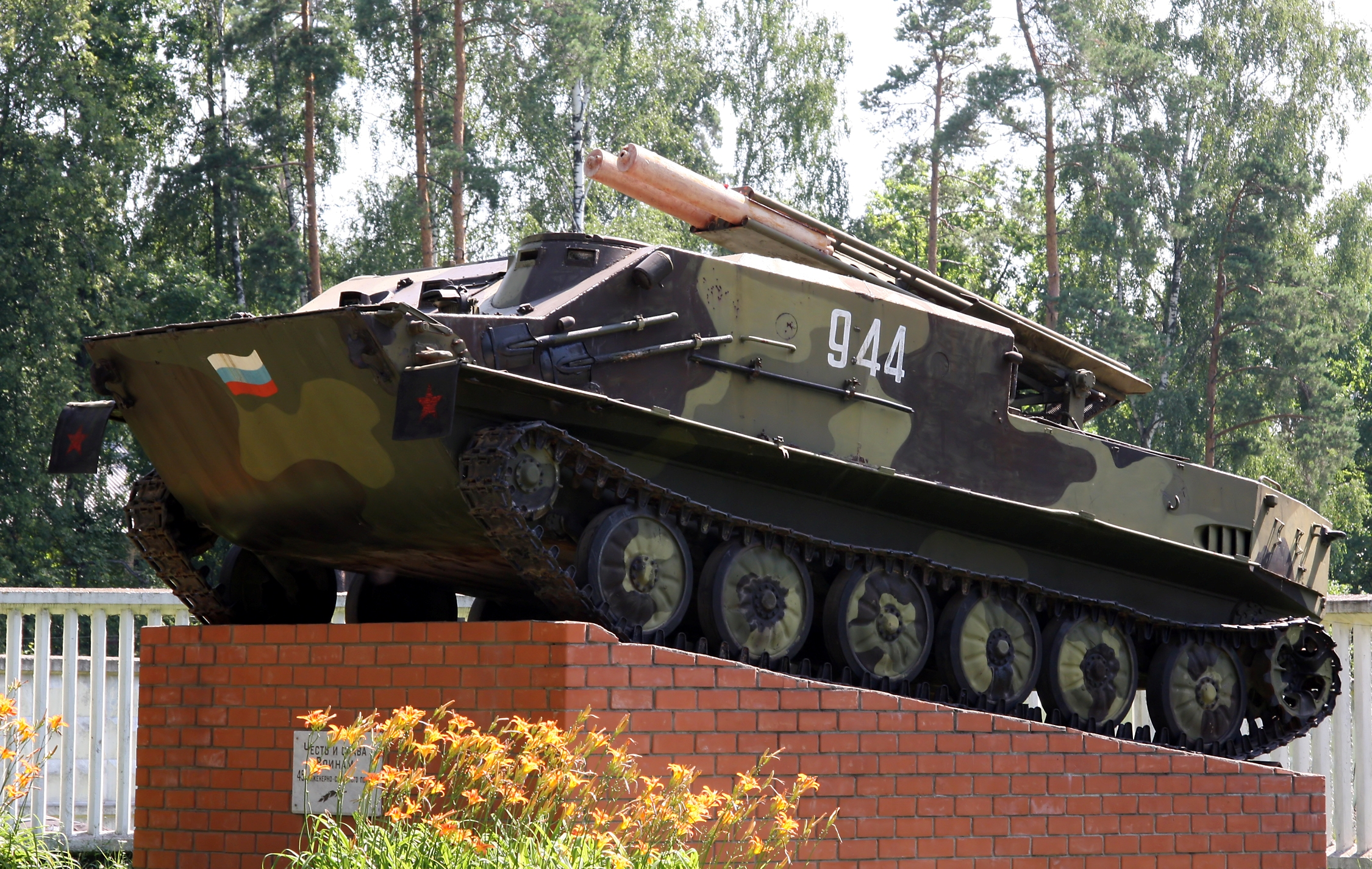 Mine-clearing vehicle UR-67..